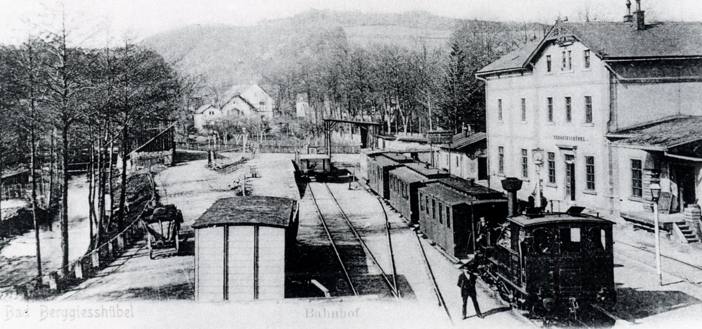 Berggießhübel train station.